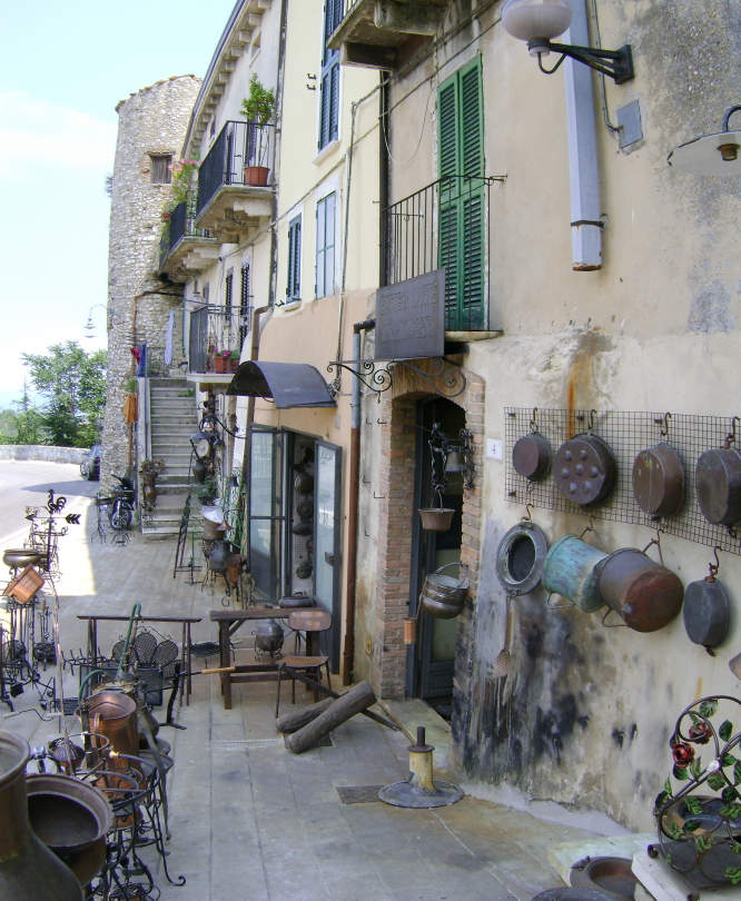 Copper shops in Guardiagrele, in the province of Chieti, Abruzzo